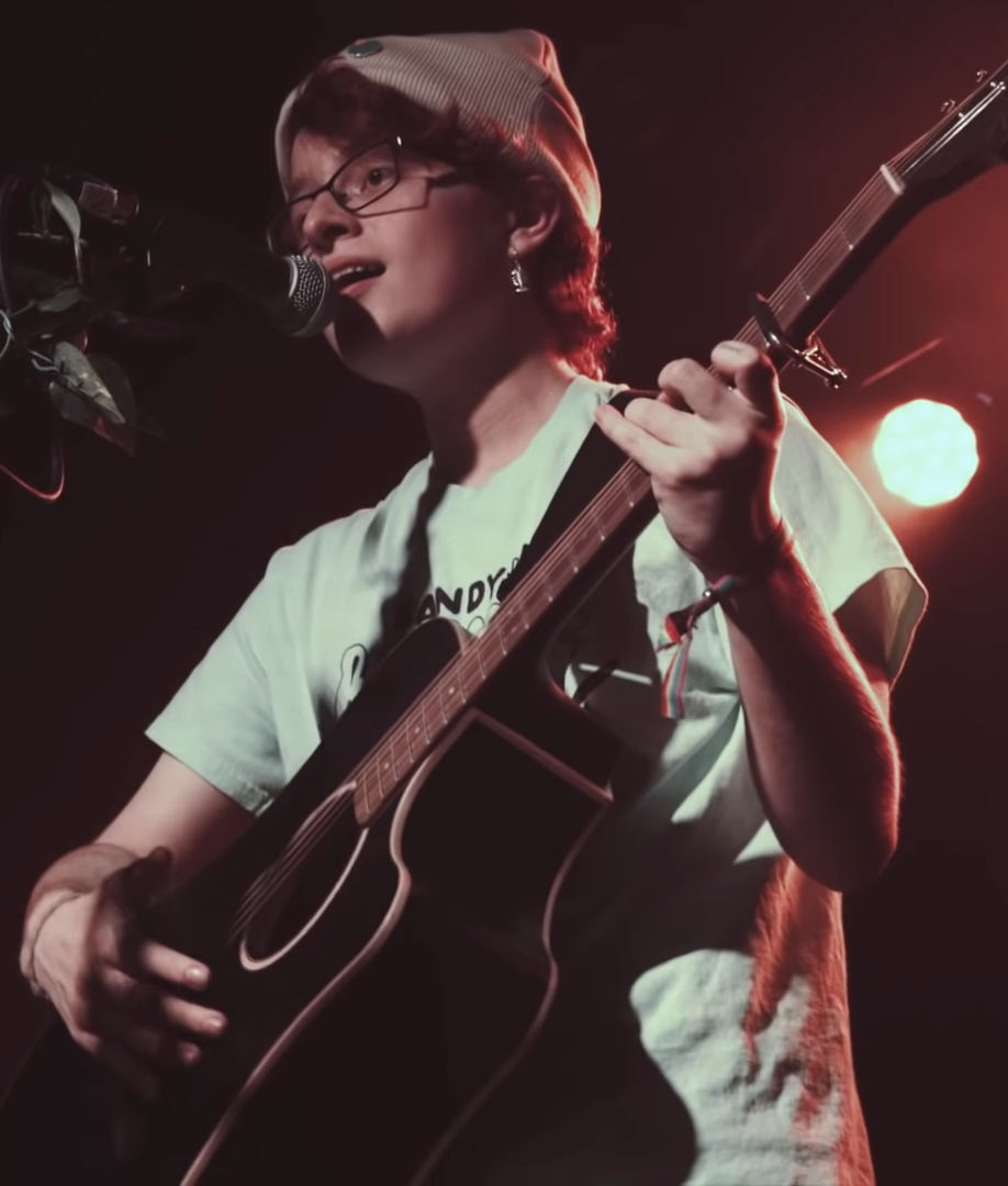 Screenshot of Cavetown performing Juliet in 2018